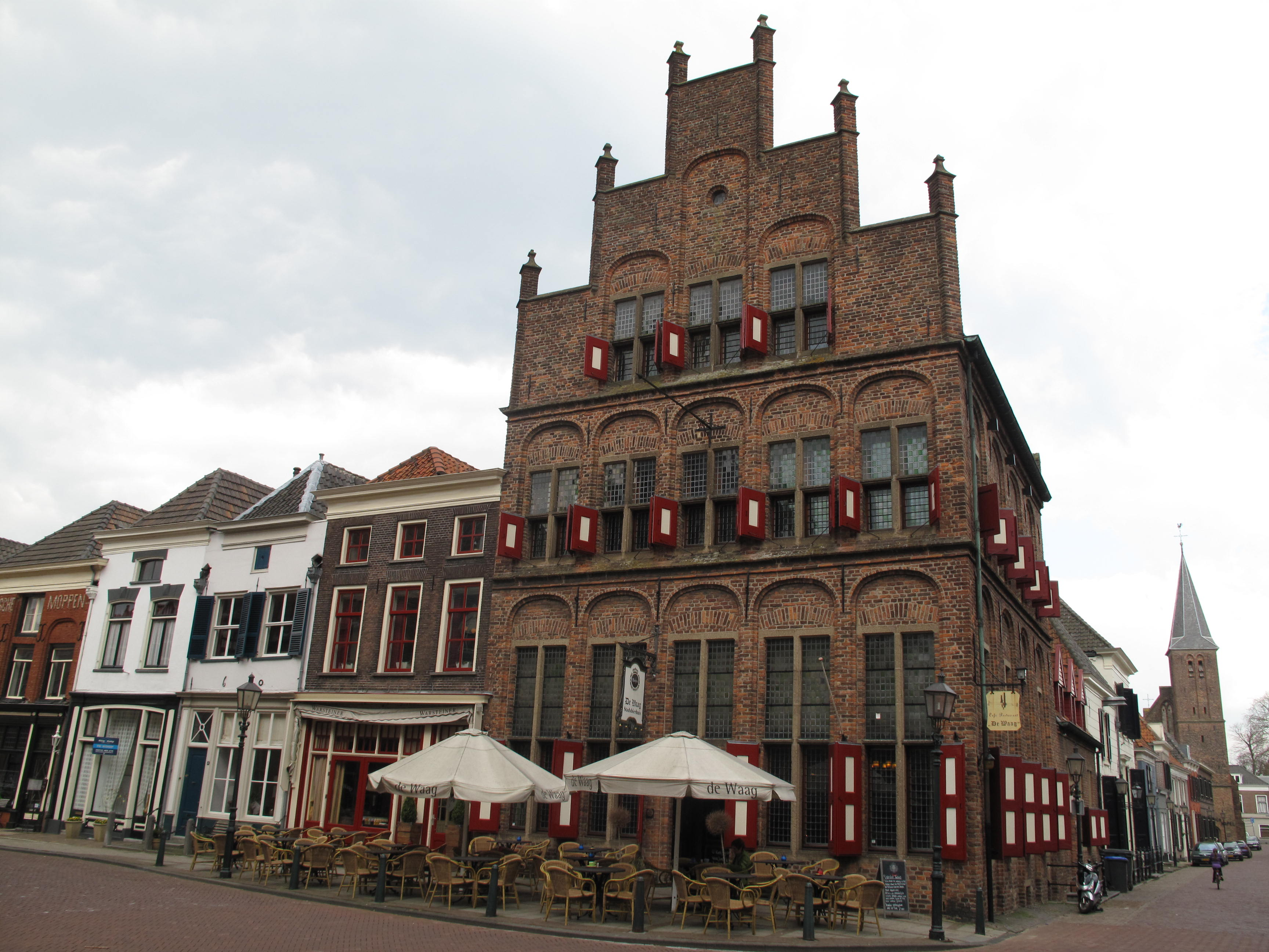 Doesburg, monumental house